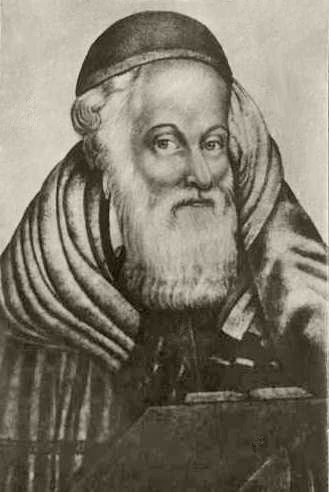 Picture of Moshe Teitelbaum